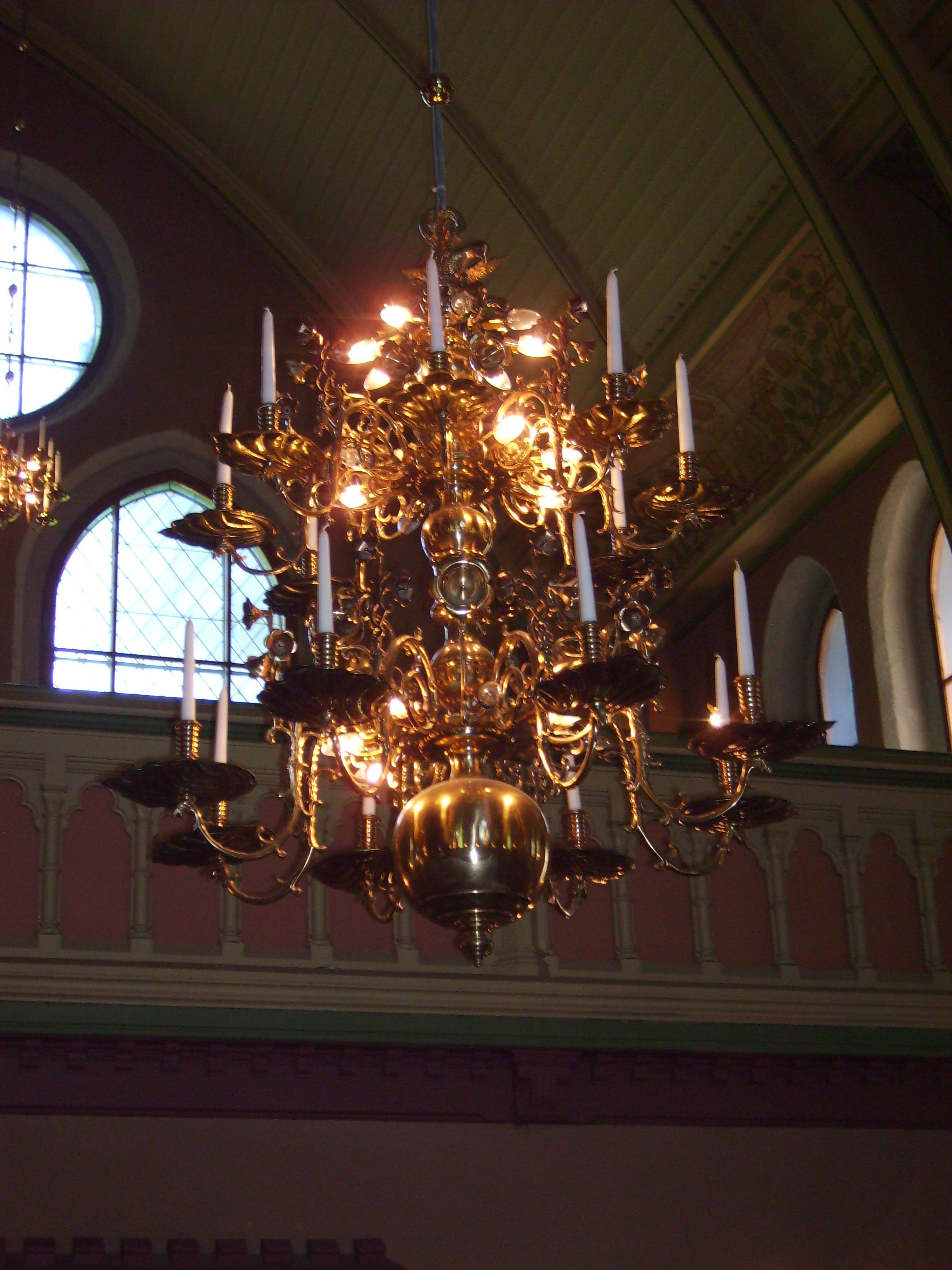 Sankt Johannes church - the new one from 1906 - (the older medieval church still exist on the head street Drottninggatan in the city, today they call it for Hörsalen, because 1913 it have been rebuilt to concert house) in Norrköping.